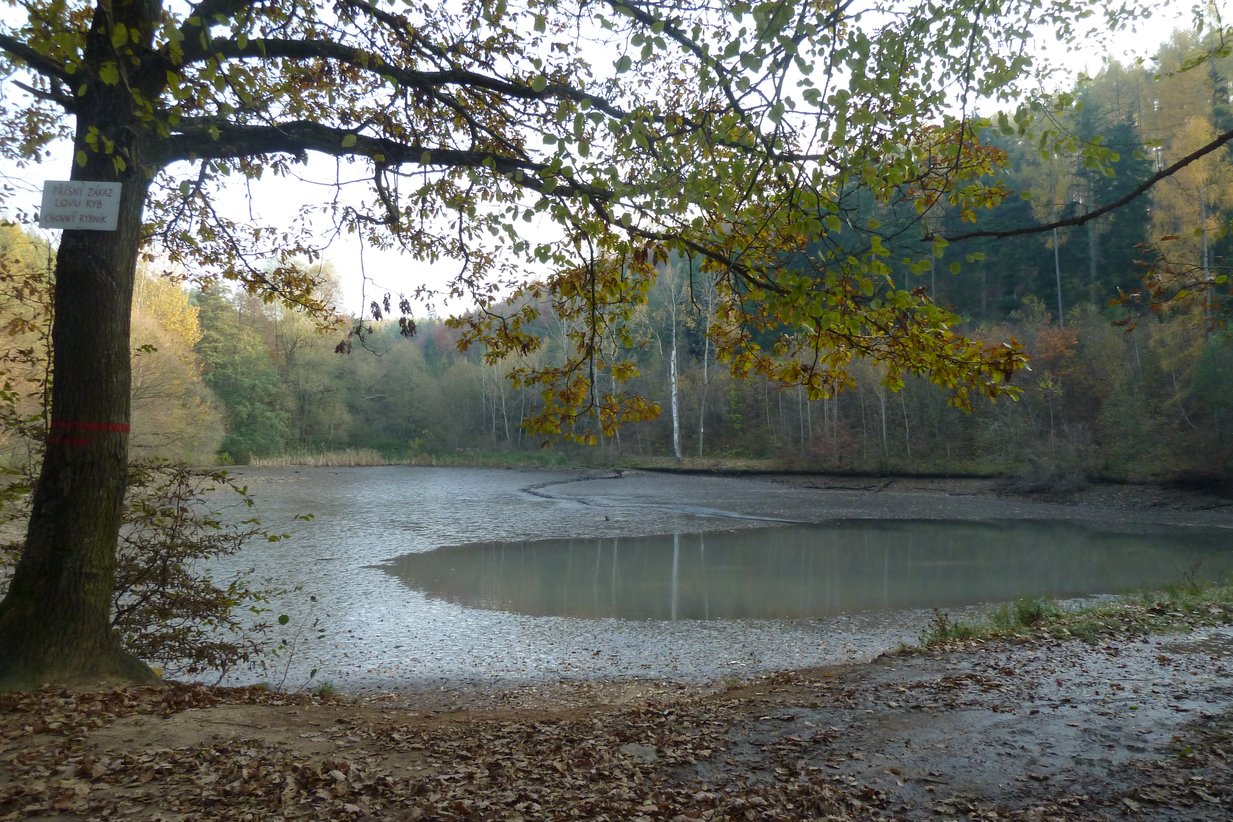 Babi doly - natural monument